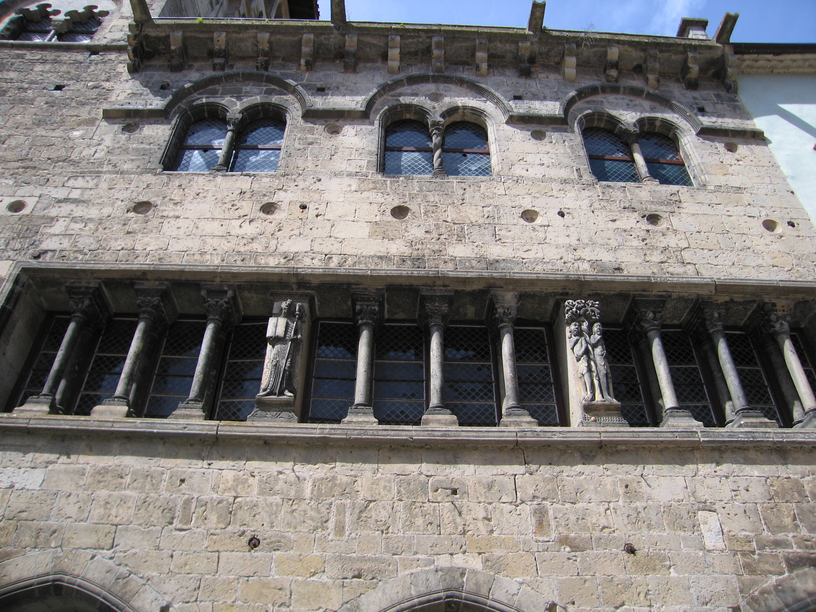 Façade of the house of the vicomte of Saint-Antonin-Noble-Val, Tarn-et-Garonne, France. This building is one of the oldest civilian monument of France (1125).